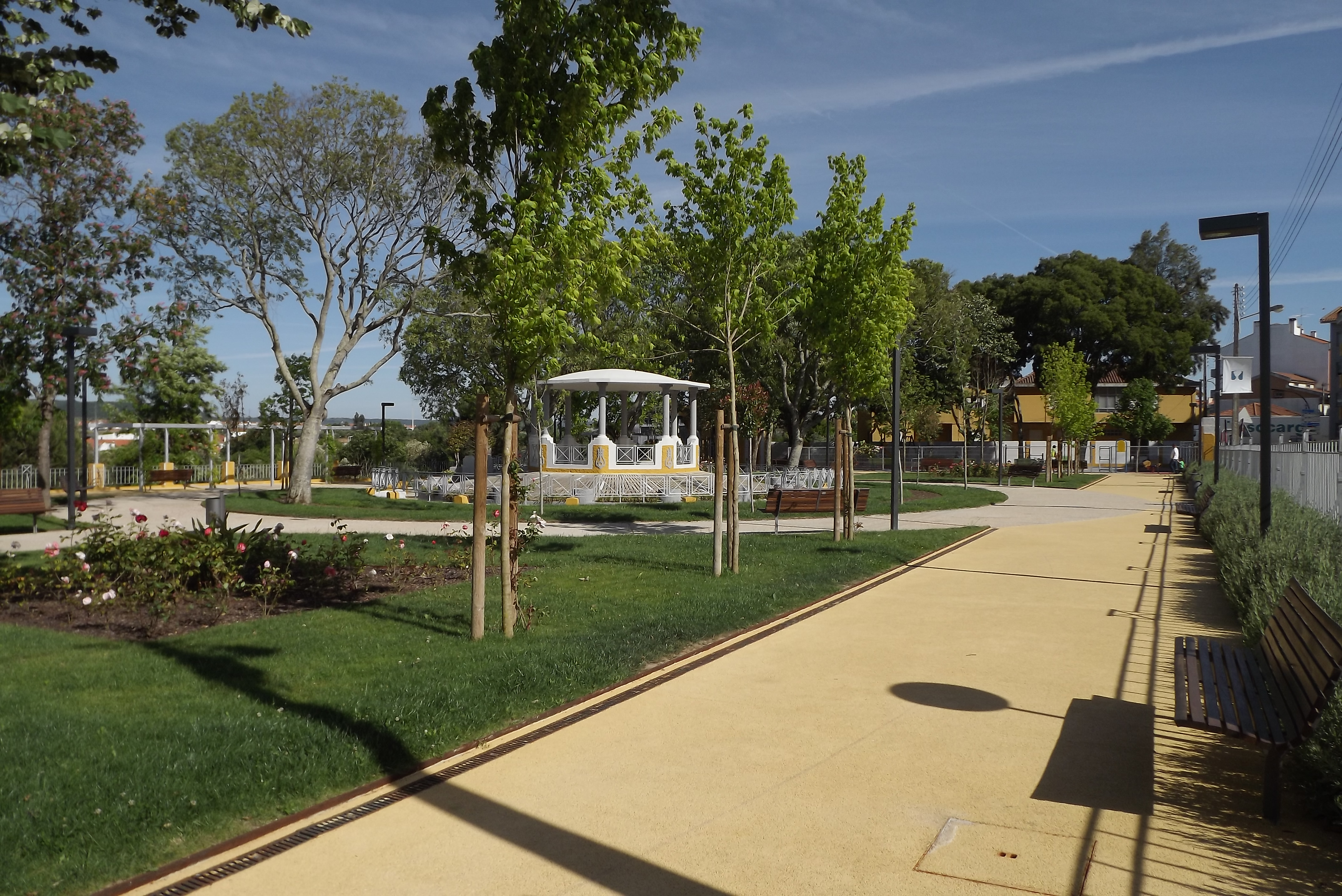 Parque José Pereira Caldas, commonly referred to D'Garden Spider.